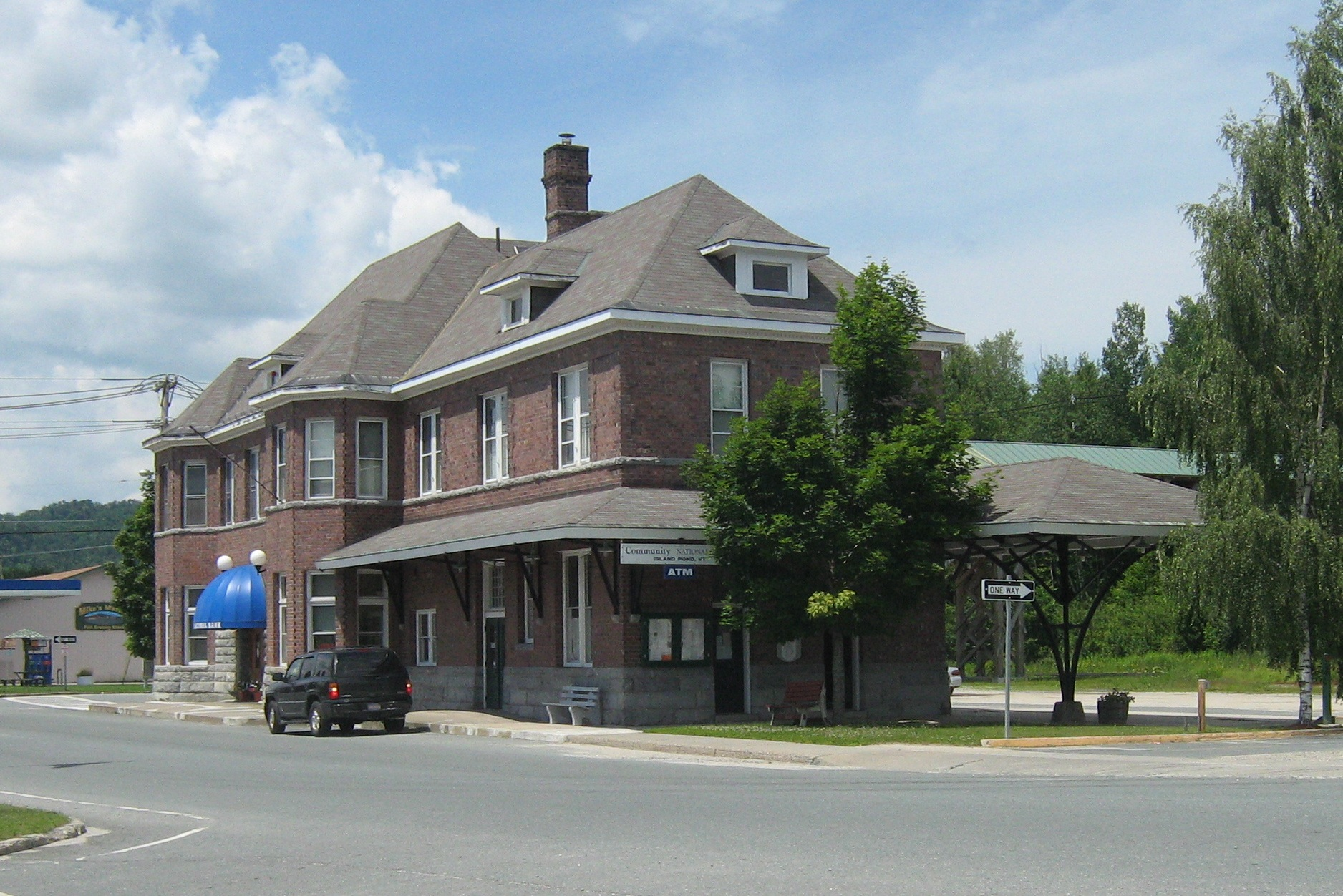 Former Grand Trunk station in Island Pond (Brighton), Vermont. Contributing building in the Island Pond Historic District of the National Register of Historic Places. Building now houses a bank and the UTG (Unified Towns and Gores) of Essex County office.